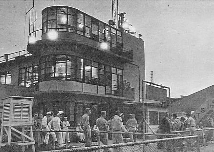 Haneda Airport Control Tower in 1950s